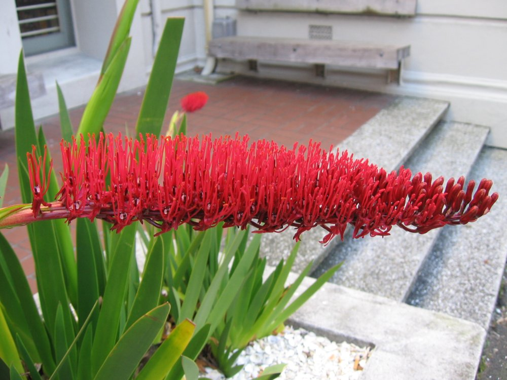 Photograph of the flower of Xeronema callistemon. Photo taken